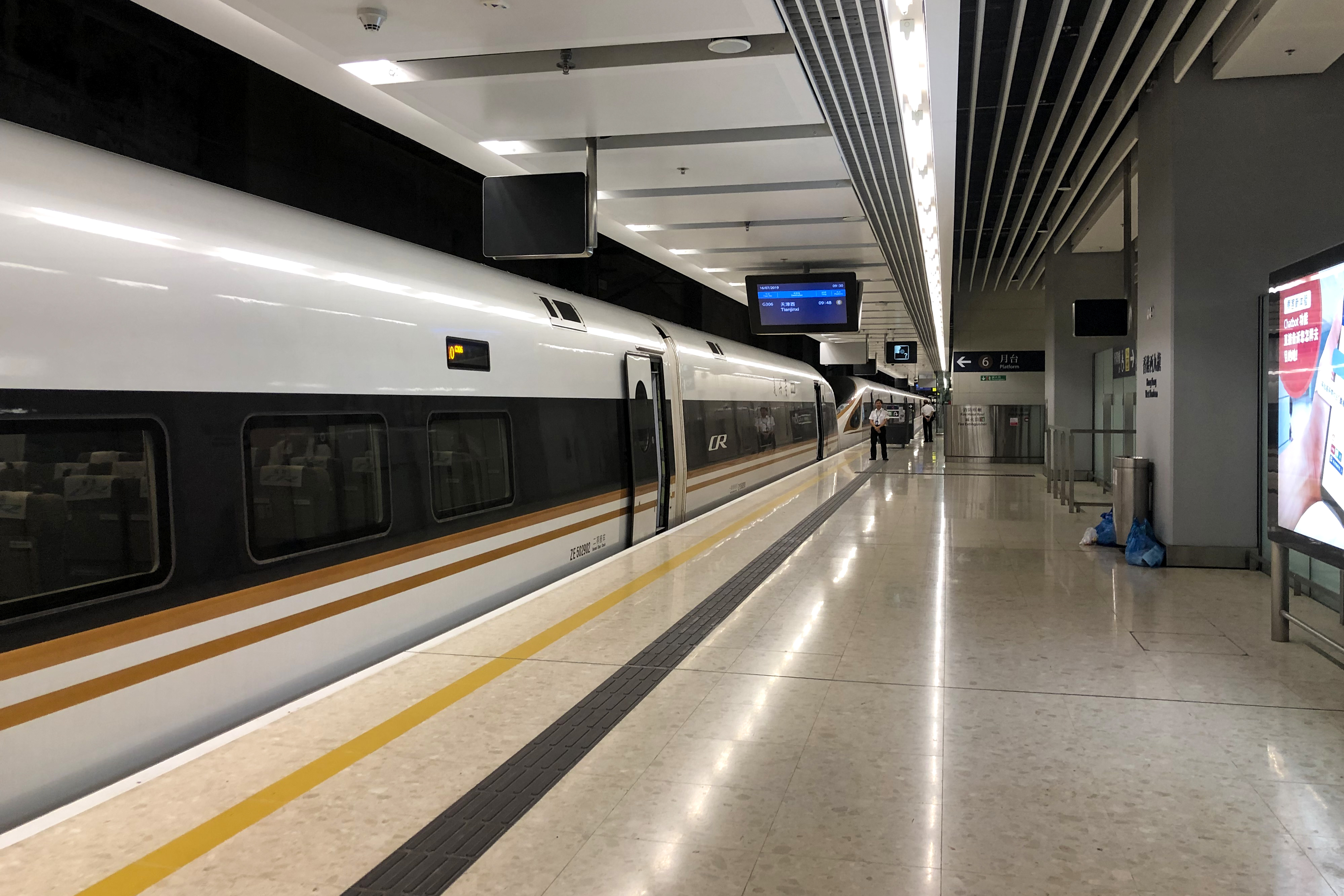 G306 to Tianjin West, but the middle is guarded to prevent "intentional" falling from platforms.